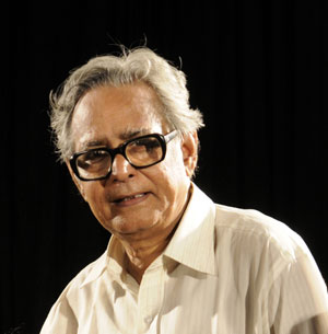 Nabhendu Sen